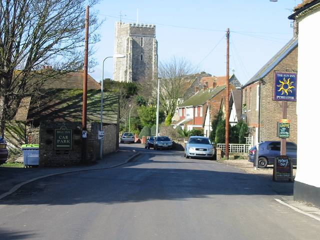 View along The Street, St Nicholas at Wade, Thanet, Kent, looking northwest to the tower of St Nicholas' parish church